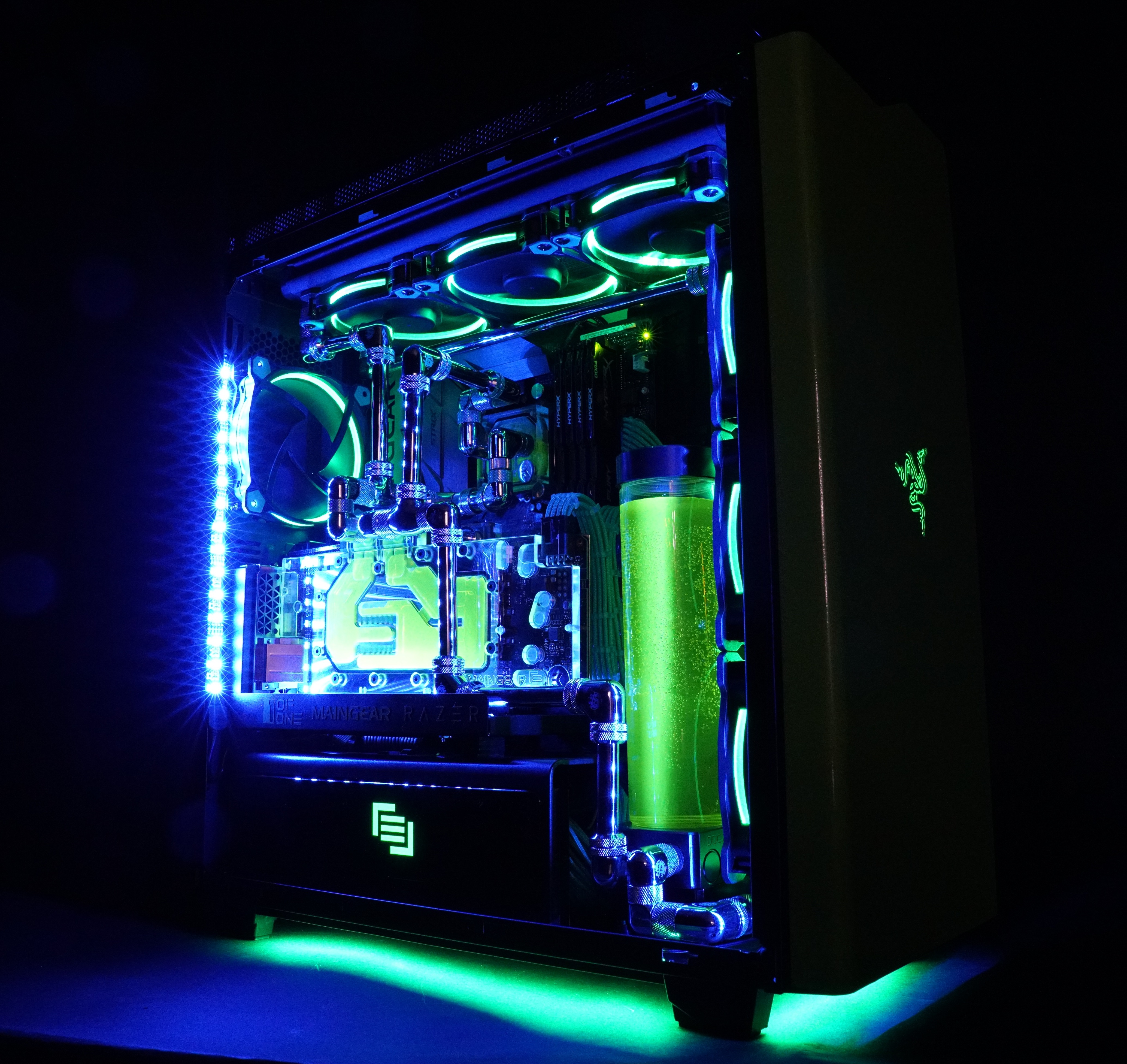 High performance, water cooled MAINGEAR R1 (Razer Edition).